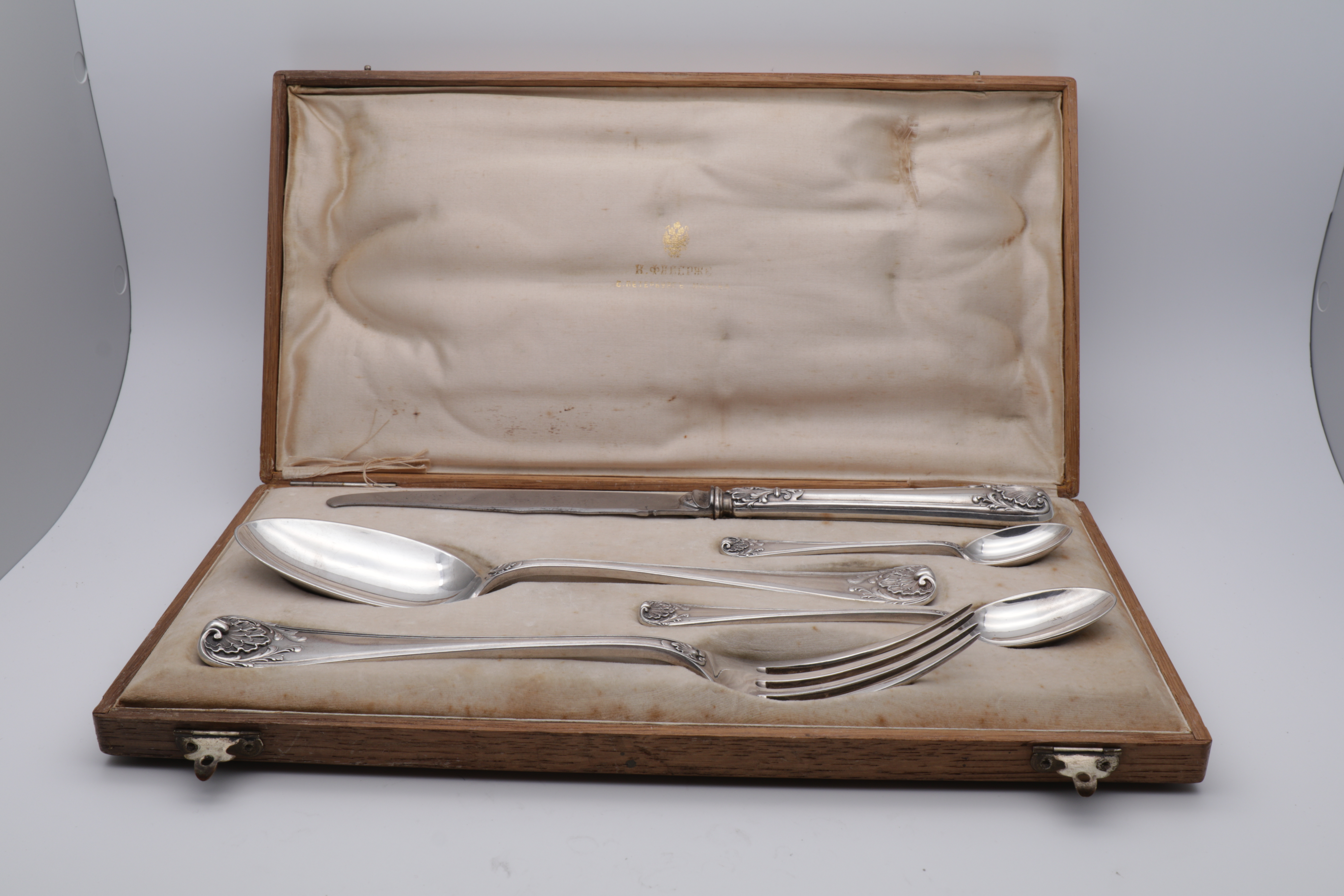 Karl Fabergé Russian silver place setting. Late 19th century, 88 zolotniki, in a shell and thread pattern: table knife, fork, and spoon, tea and coffee spoons